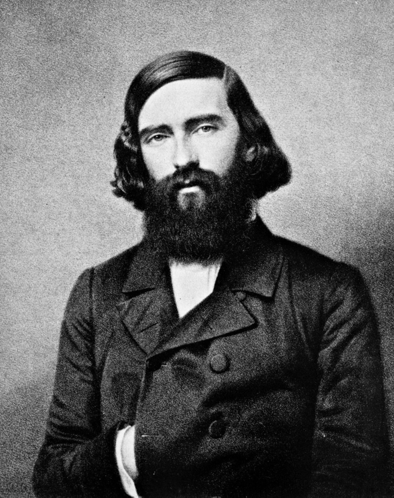 Albrecht v Graefe (1828-1870), medecin; 31:26